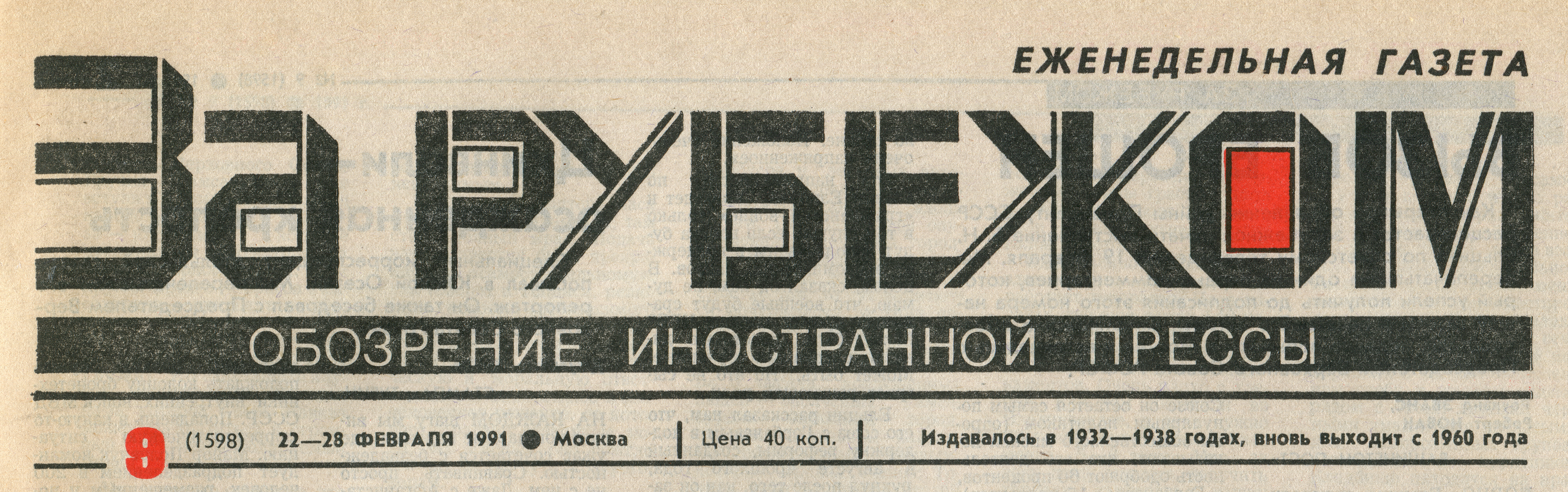 USSR newspaper. Za Rubezhom. 1991 year.